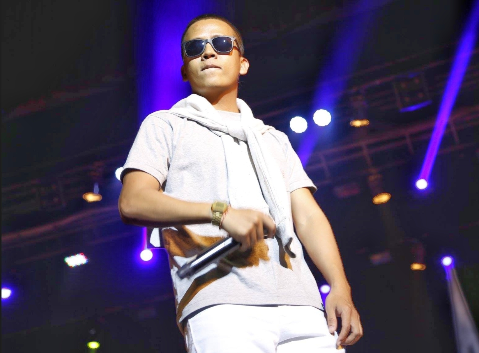 Famous Burmese hip hop singer Yan Yan Chan